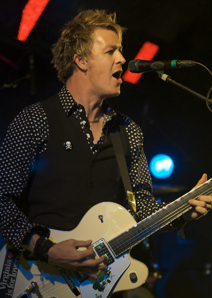 Leadsinger of the band The Living End, Chris Cheney.